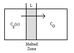 Figure of float-zone crystal growth